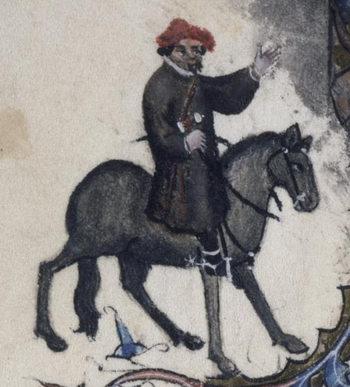 The Shipman in the Ellesmere manuscript of Geoffrey Chaucer's Canterbury Tales.